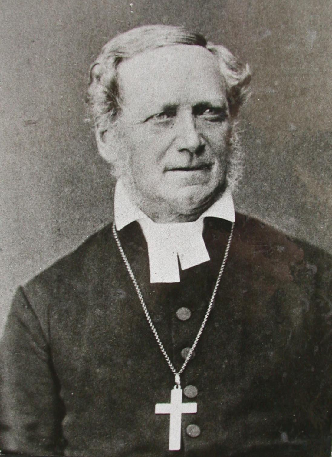 Swedish bishop (Diocese of Strängnäs, 1852-1880) Thure Annerstedt.